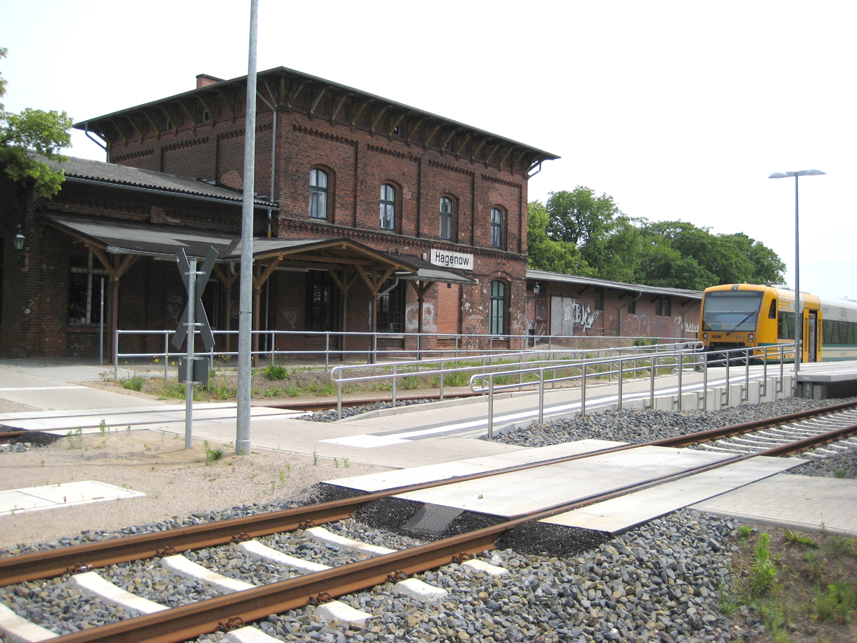 Hagenow city train station, city front